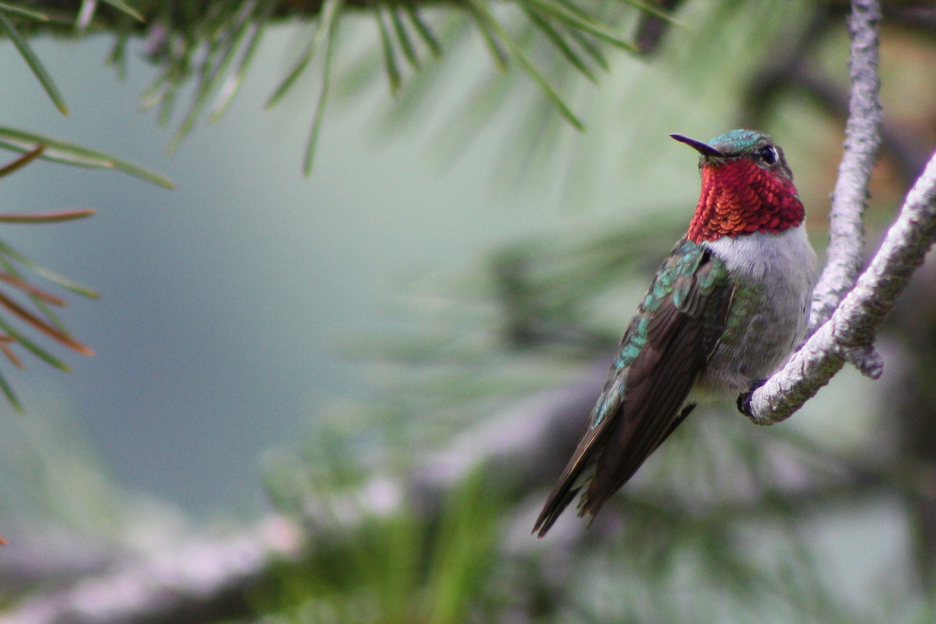 Broad-billed Hummingbird, (Selasphorus platycercus); male; taken in Wyoming